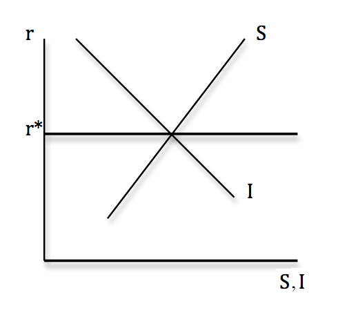 Loanable funds diagram